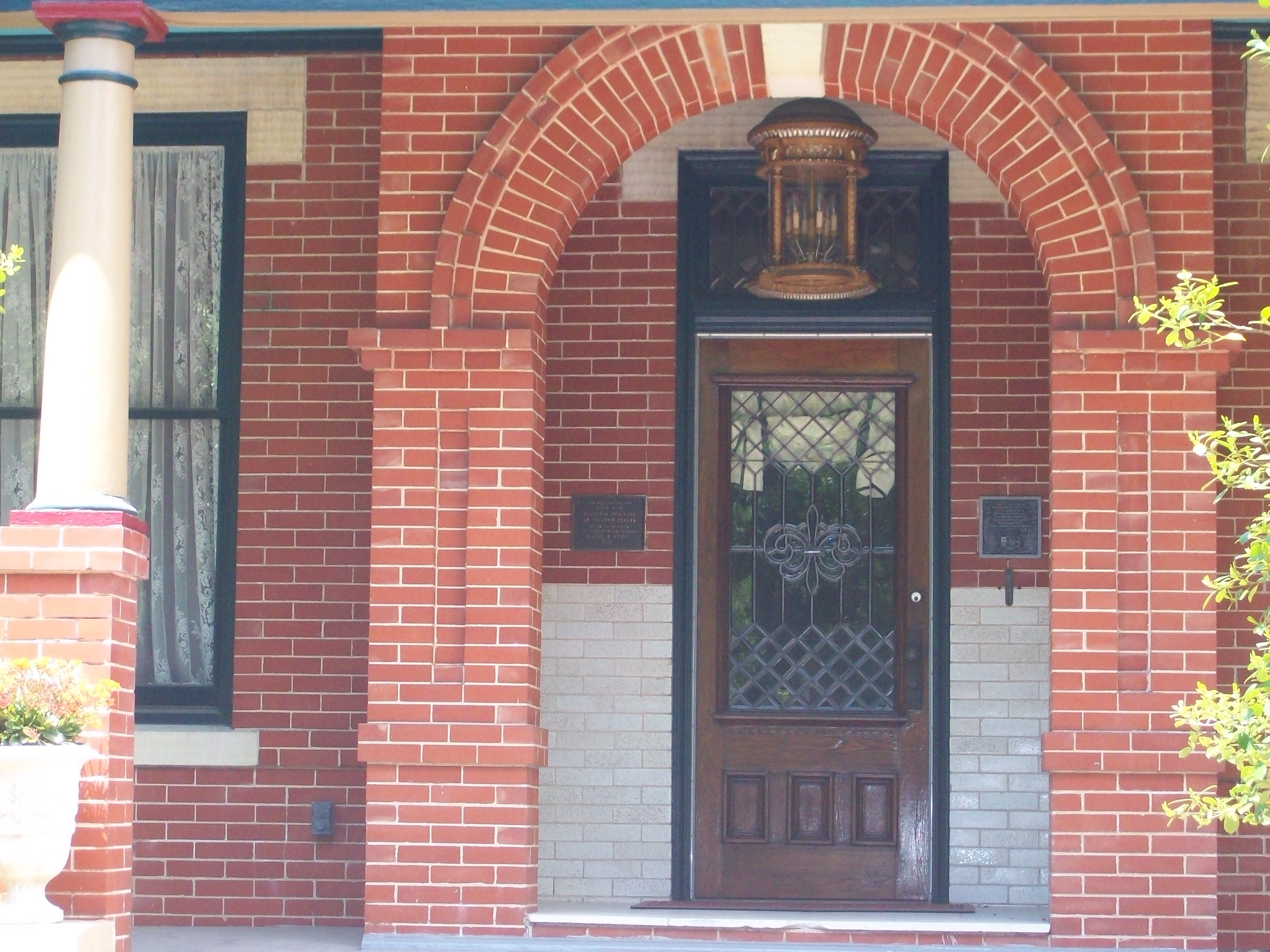 Webber House front door closeup